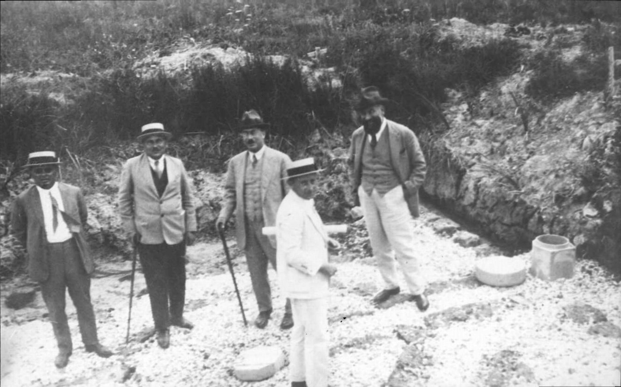 Men from the Palestine Jewish Colonization Association in the Kabra Swamps. From right to left: Yehuda Zil Rozenheck, General Manager; Shmuel Goldman, Engineer; Henry Frank, Director; Moshe Ginsburg, Chief Treasurer; and Amram Haznov, Agronomist.